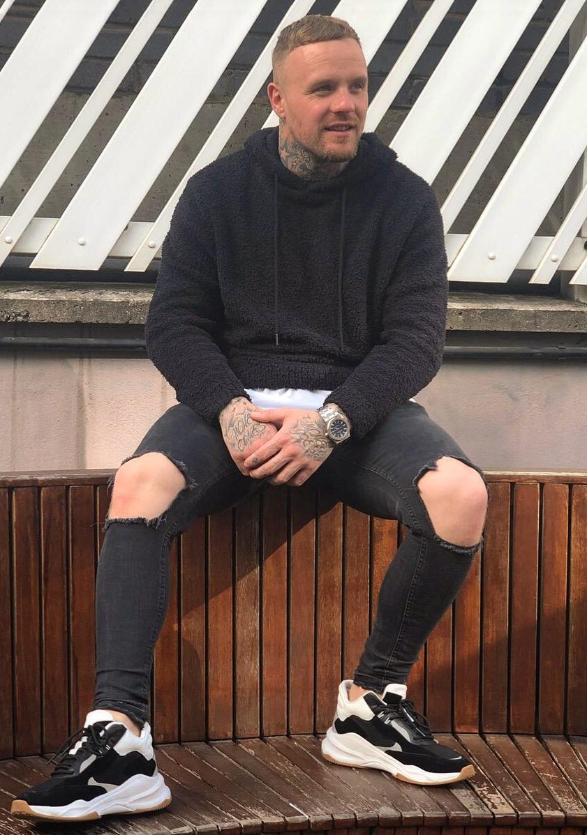 Image of Magician and Mind reader Ryan Tricks in 2018